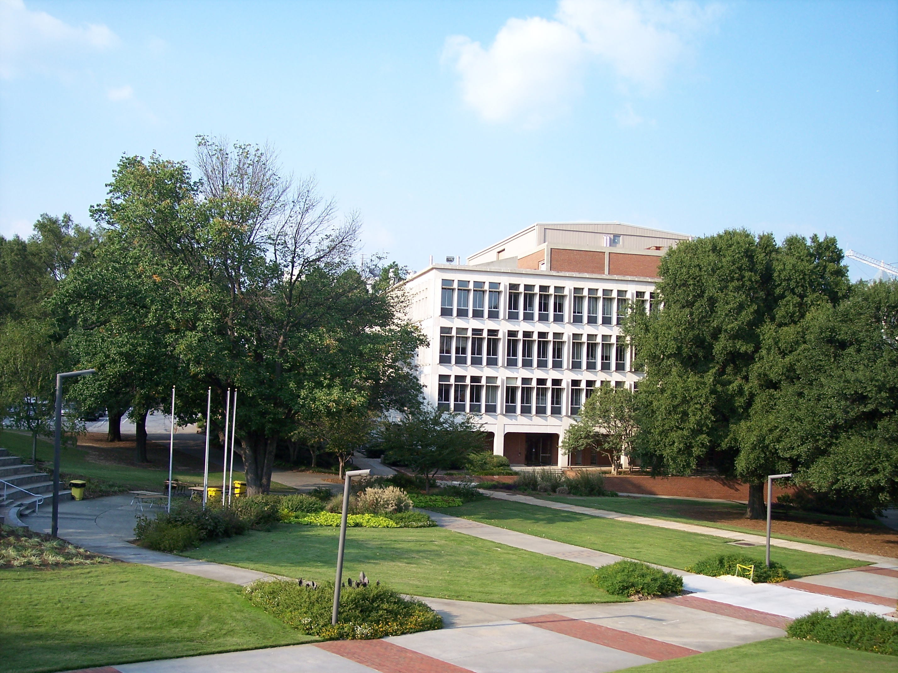 Georgia Institute of Technology (Georgia Tech) campus, Atlanta, GA, USA.100_0340